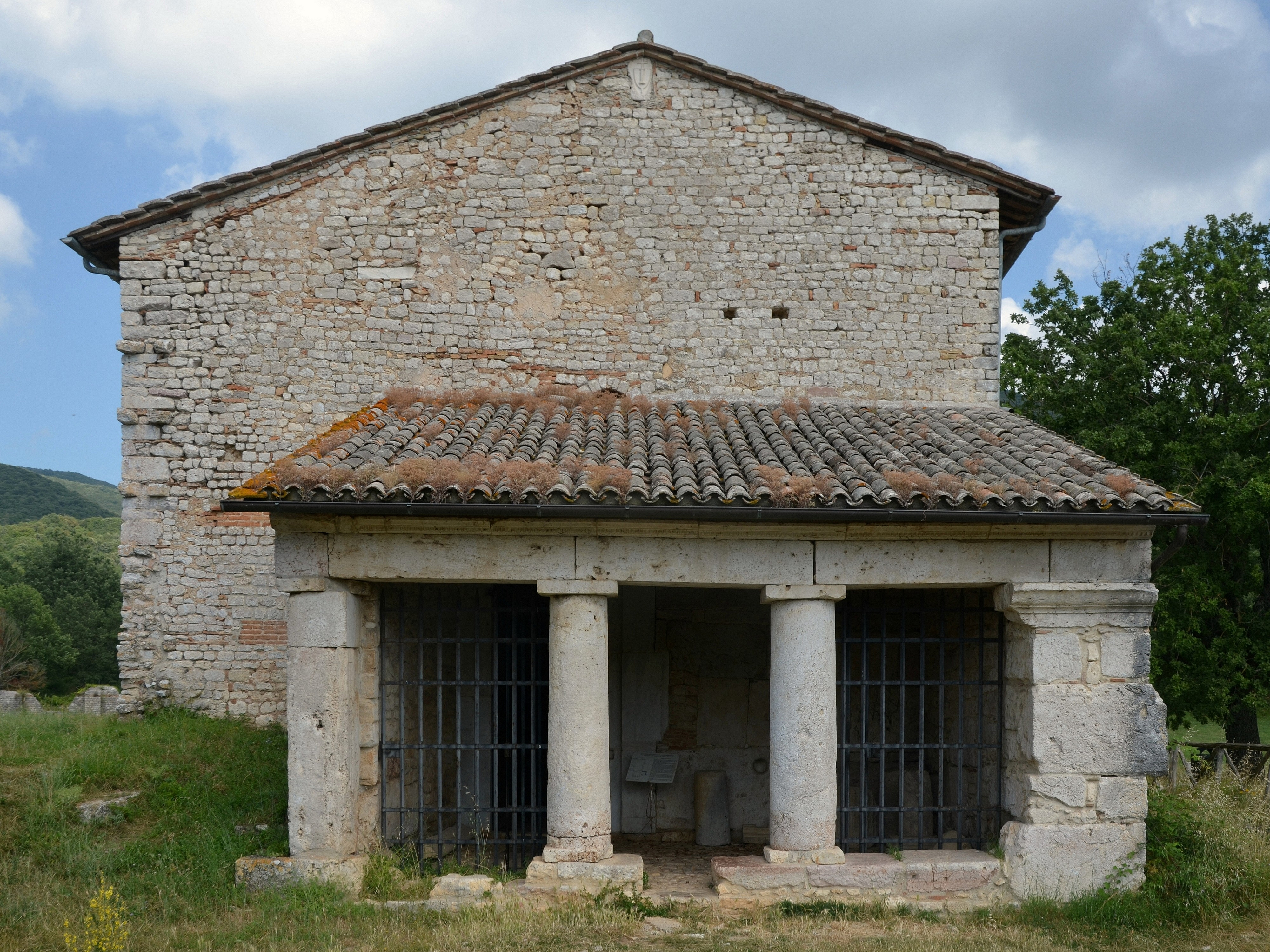 The Church of S. Cosma and Damiano, built in the XI century using a pre-existent building whose function is uncertain and dated between the 1st and the 2nd century AD, Carsulae, Italy